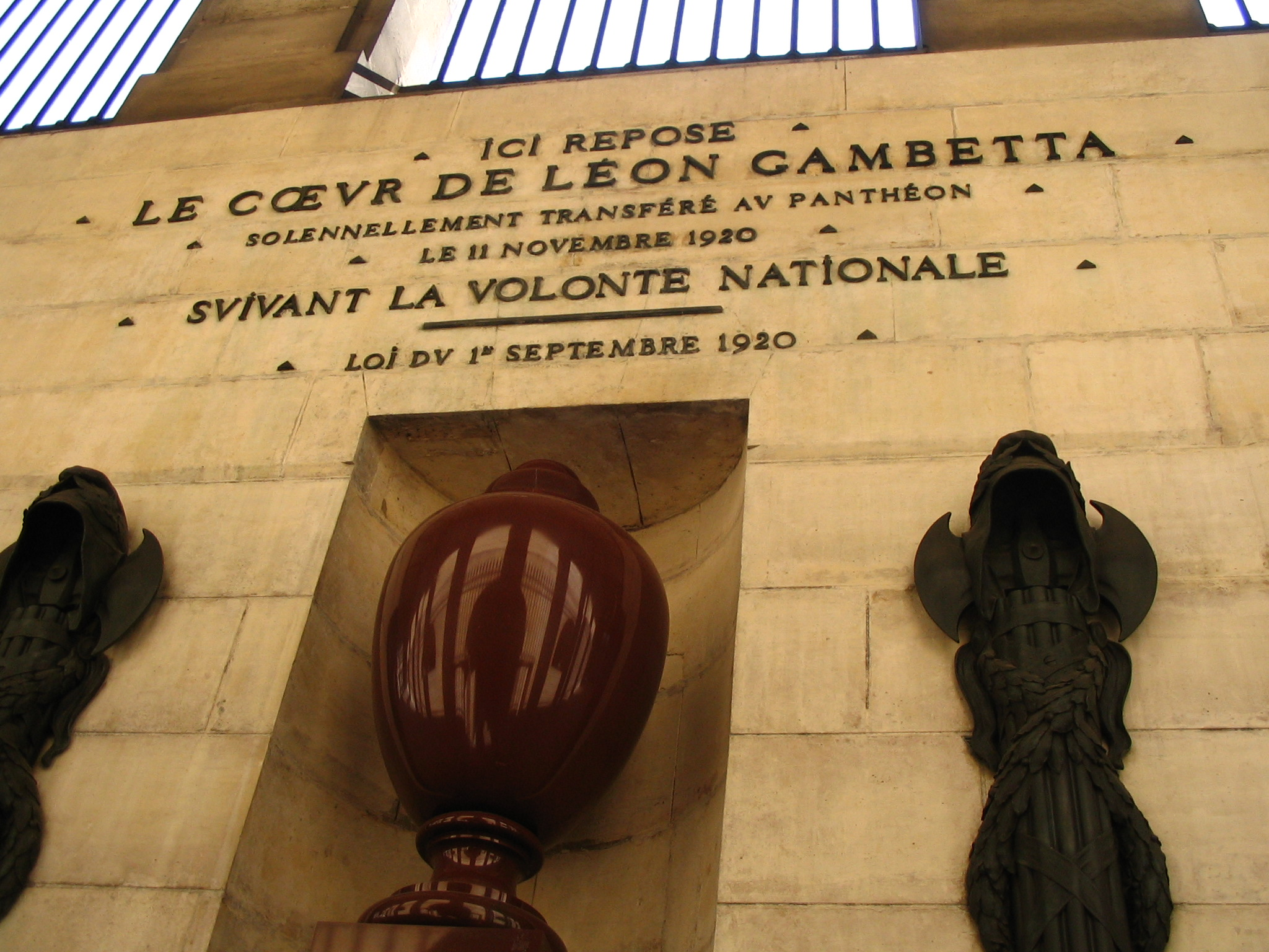 Funerary monument for the heart of Léon Gambetta beside the flight of stairs leading to the crypt of the Panthéon in Paris, Ve arrodissement, Paris, France.